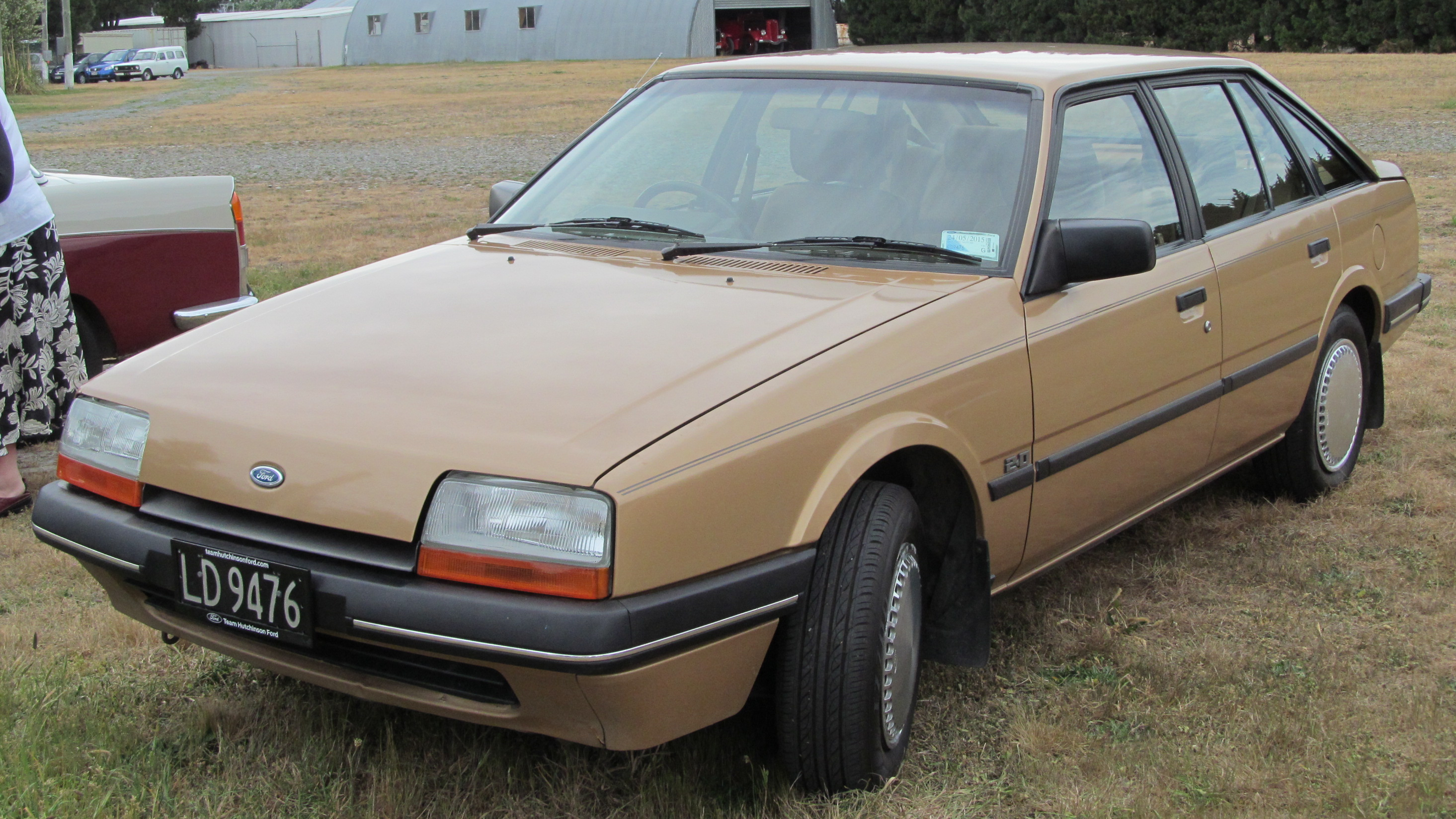 I'm not sure whether this is an TX5 L or a TX5 GL, but it's definitely not a Ghia. Anyway, this was in stunning condition, and reminded me how rare these have become. Another clean old Ford in the background...